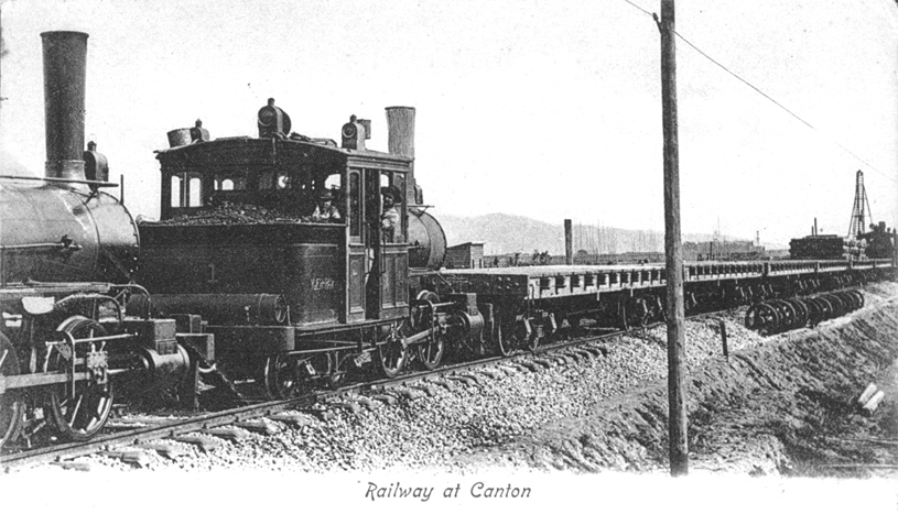 Post card dated c. 1903 showing railway at Canton. Construction train on the Canton-Sam Shui Railway pulled by two 'Forney' type tank locomotives.